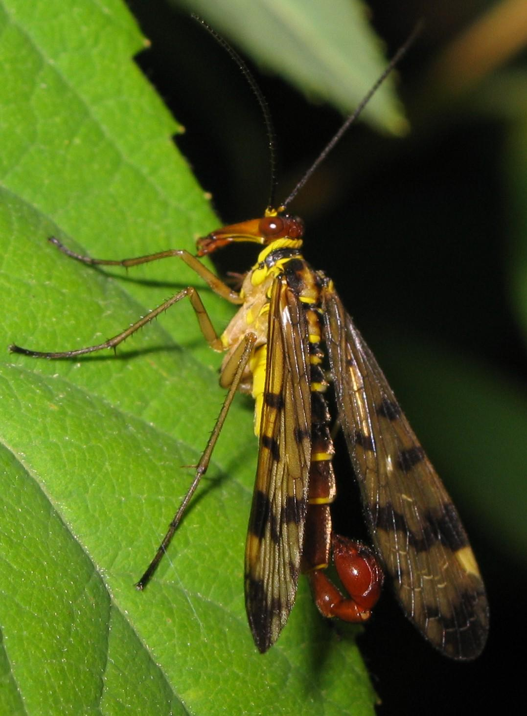 Male specimen of Panorpa communis photographed in Eckernförde, Northern Germany